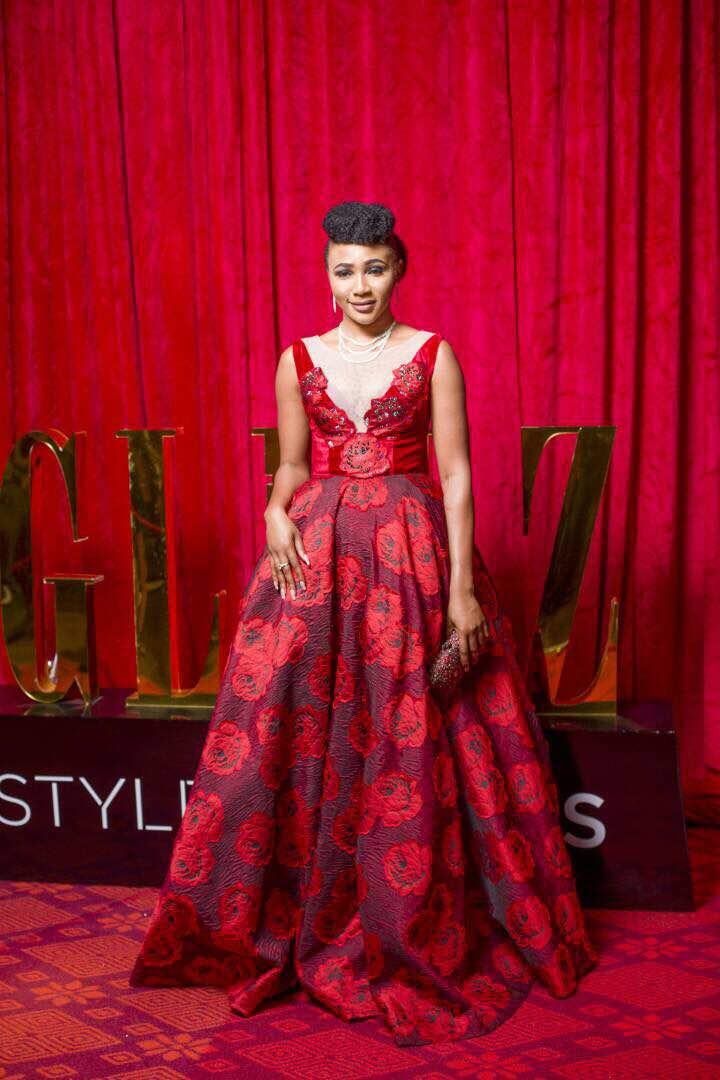 The photo was taken at Glitz style award in Ghana